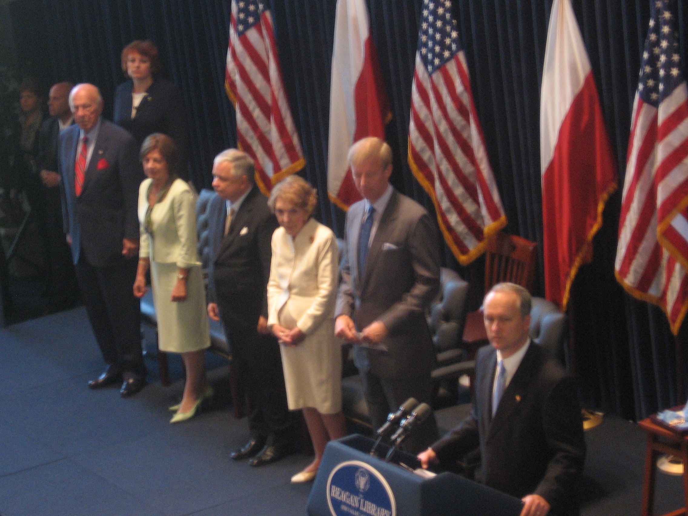 First Lady Nancy Reagan (middle, in brown suit) at the Ronald Reagan Presidential Library with Polish President Lech Kaczyński (left of Mrs. Reagan) and First Lady Maria Kaczyński (left of the President) as well as Secretary of State George Shultz (far left). Director of the Reagan Preesidential Library, R. Duke Blackwood, is speaking and Chairman of the Board of Trustees of the Ronald Reagan Presidential Foundation, Fred Ryan, is at Mrs. Reagan's right.